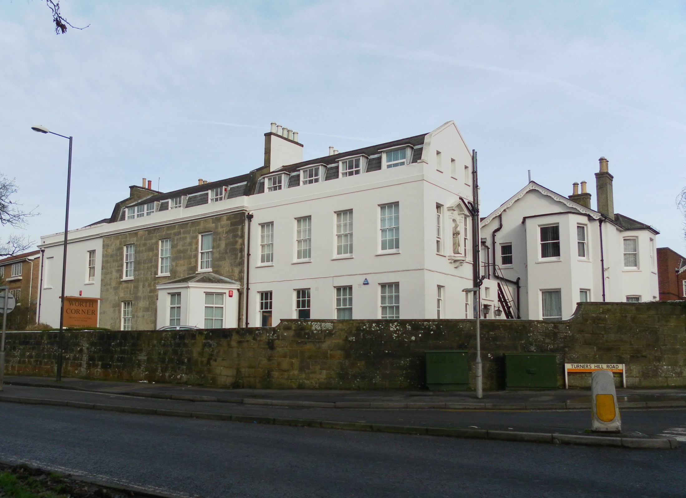 Worth Training Centre, Turners Hill Road, Pound Hill, Crawley, West Sussex, England. Listed at Grade II by English Heritage (IoE Code 363326)